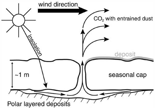 Schematic sketch of the CO2 geyser hypothesis. Martian south polar layered terrain is overlain by seasonal ice of ~1 m in thickness. Penetration of sunlight to the base of the seasonal deposit causes sublimation from the bottom, leading to a buildup of pressurized CO2 gas. The gas eventually bursts out, entraining dust and leading to the dark fan-shaped deposits. Repeated outbursts from year to year erode the underlying polar layered deposits, leading to the development of "Martian spiders".